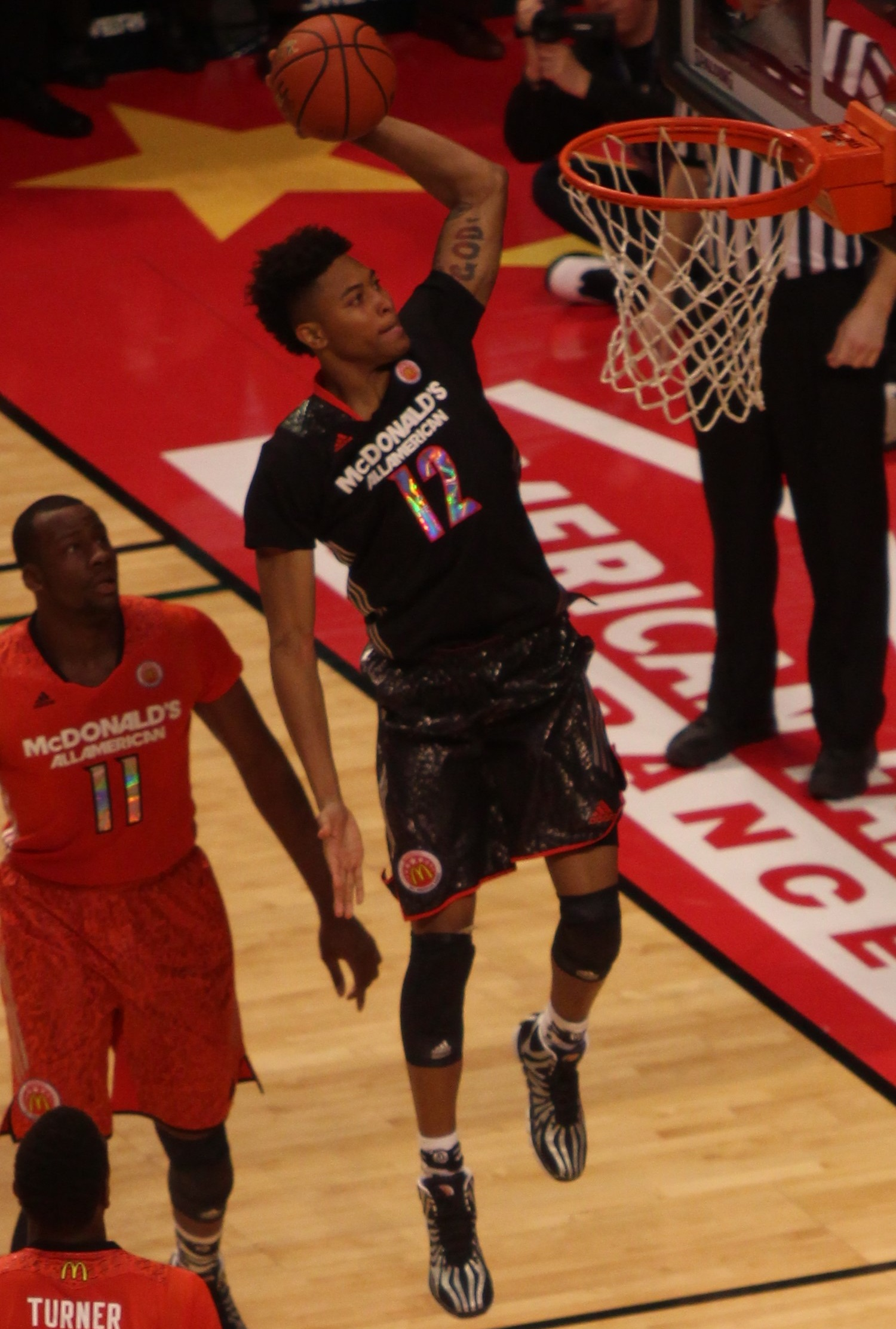 Kelly Oubre dunking in the w:2014 McDonald's All-American Boys Game